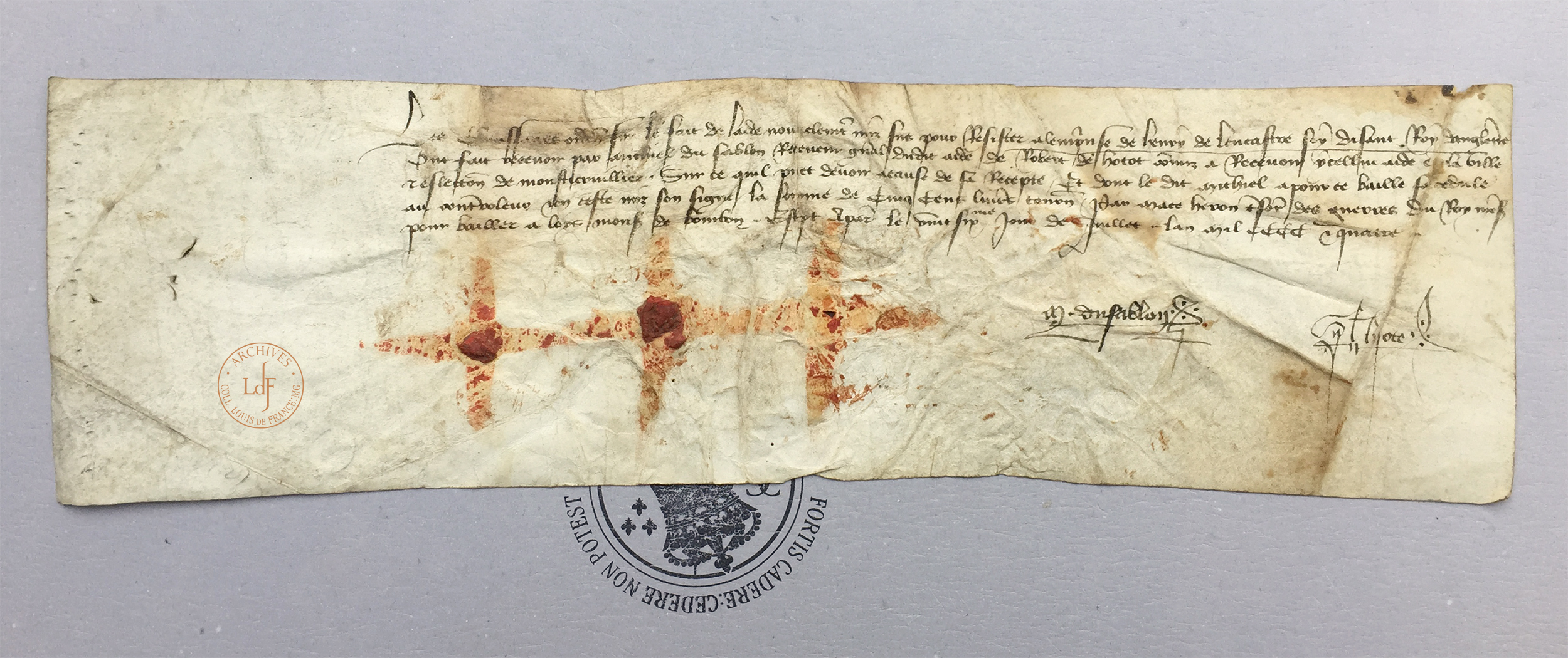 CLdF-BR 0105: Hundred Years' War, certificate by Michel du Sablon, royal taxgatherer of the french King Charles VI: armament of the french city Montivilliers against the english King Henry IV (Henry Lancaster/ Henry Bolingbroke), july 26, 1404. Michel du Sablon confirms the receipt of 500 livres contributed by Robert de Hotot for the armament of Montivilliers "to resist the force of Henry Lancaster, who calls himself a King of England" («[...] pour resister a l'emprise de Henry de Lencastre soy disant Roy d'Angleterre [...]»); Title: Collection Louis de France, Manuscripts, CLdF-BR 0105: Guerre de Cent Ans, certificat par Michel du Sablon, général-maître des monnaies du Roi Charles VI de France; Year/date: Paris, july 26, 1404; Dimensions: ca. 320 x 96 mm; Pages: 1p/ vellum; Location: Dortmund/ Germany, Collection Louis de France